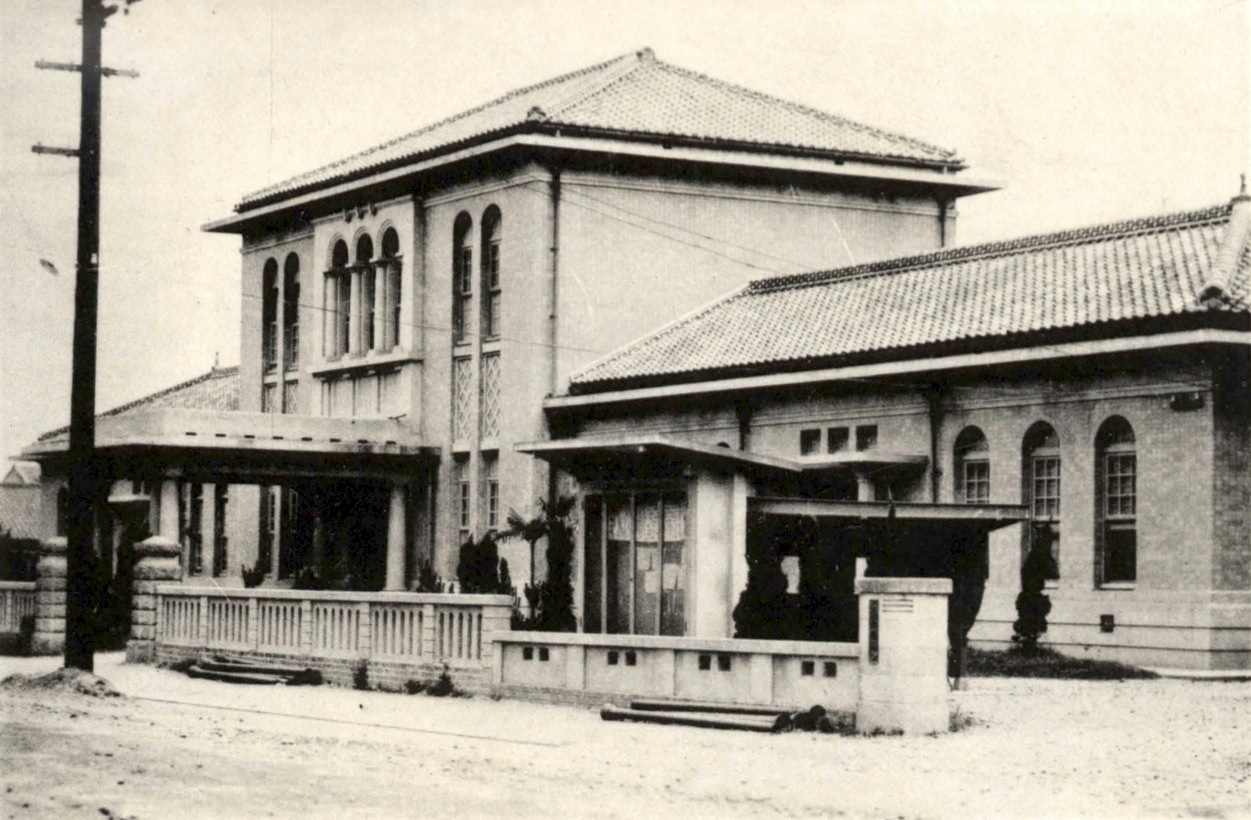 桃園郡役所 Tōen-gun yakusho